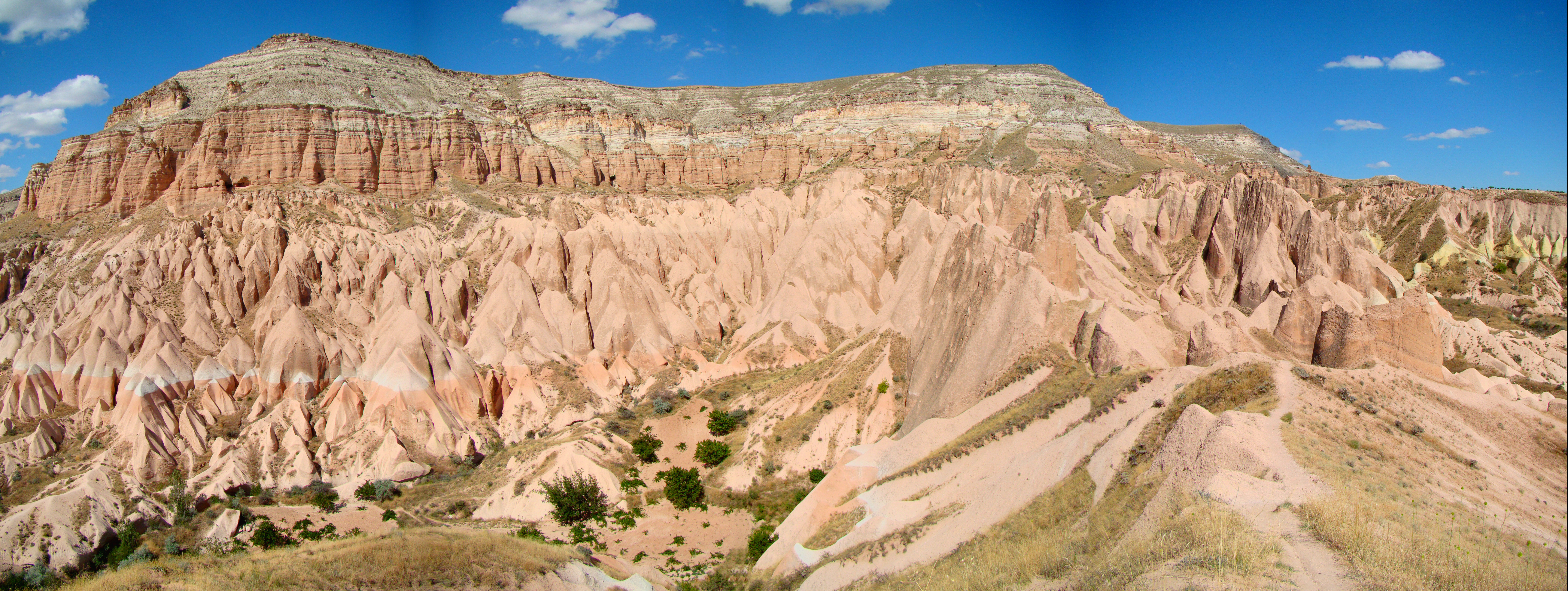 A panorama view of Aktepe Hill, a mountain north-east of Göreme in Cappadocia in Central Turkey. This area contains many ancient homes, churches, pigeon farms carved straight into the rock. This photo is taken in the Rose Valley.